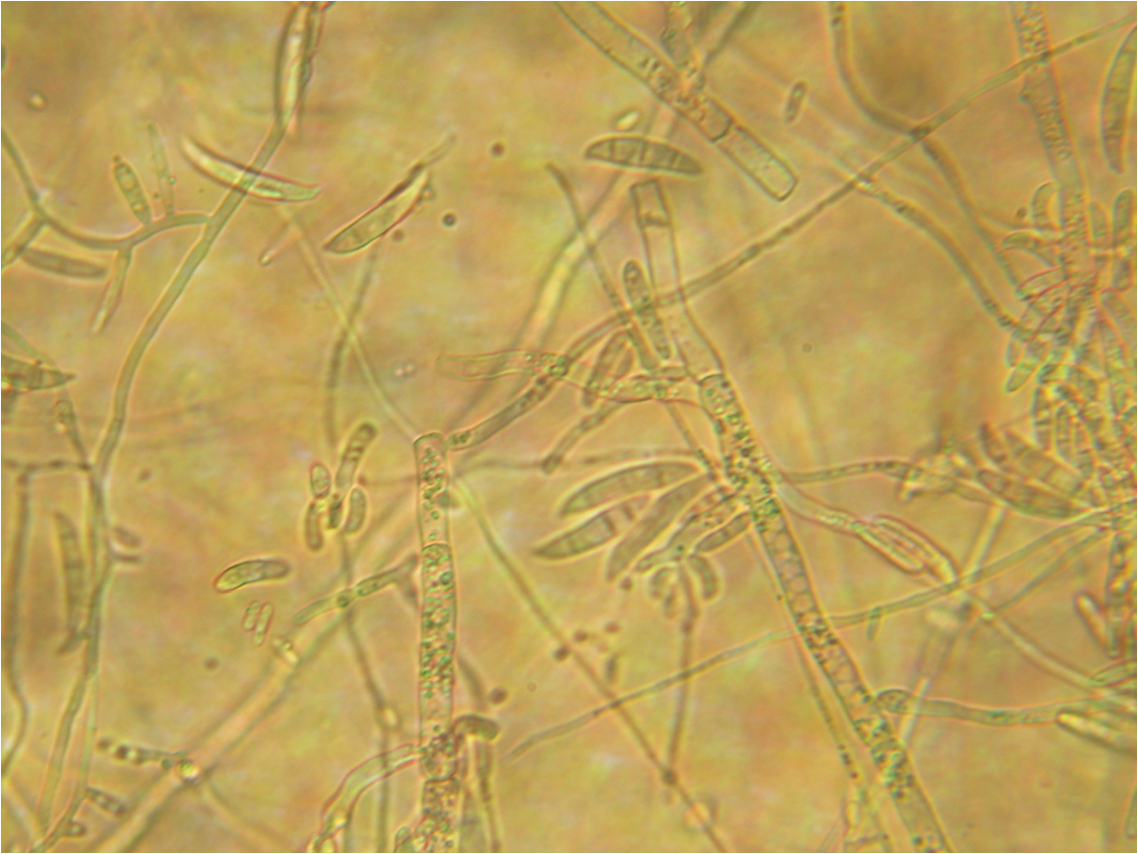 Fusarium conidiophores and macroconidia magnified 160X. Identified using Barnett, H. L. & Hunter, B. B. (1998) Illustrated Genera of Imperfect Fungi. APS Press: St. Paul, MN; pp. 130–1 ISBN 0-89054-192-2. Recovered from cantaloupe (Cucumis melo var. cantalupensis Naudin). Host status confirmed using Farr, D. F., Bills, G. F., Chamuris, G. P., & Rossman, A. Y. (1995) Fungi on Plants and Plant Products in the United States. APS Press: St. Paul, MN; pp. 147–9 ISBN 0-89054-099-3.